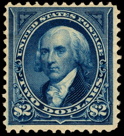 James Madison was honored on the 2-dollar stamp for the 1894 First Bureau Issue. Only 10,000 unwatermarked and 31,000 watermarked printings were issued, mostly for use in internal Post Office Department accounting.